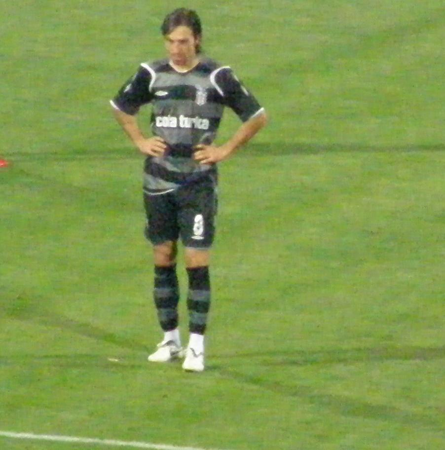 Uğur İnceman during Beşiktaş-Široki Brijeg match, 28.08.2008.